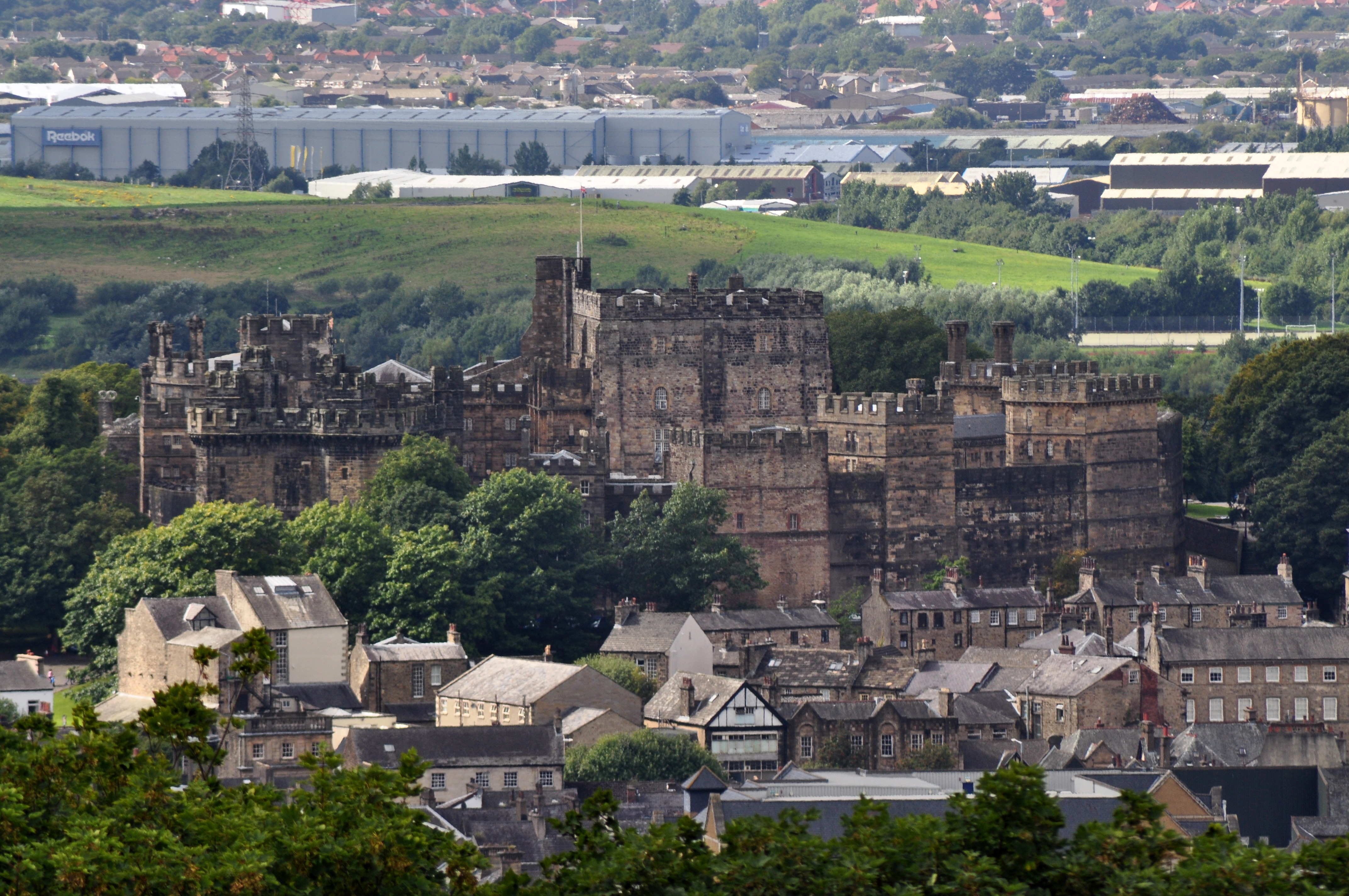 Lancaster Castle as seen from atop the Ashton Memorial in Williamson Park, Lancaster. The keep is in the centre, towering above the curtain walls, and the monumental gatehouse is to the left, partly obscured by trees.